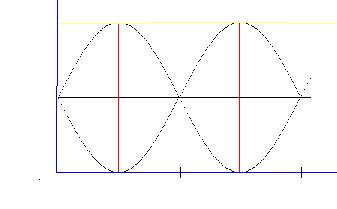 impetali process